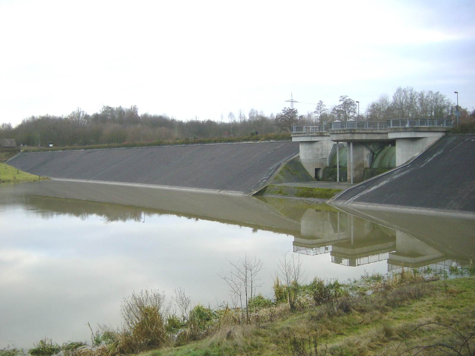 Haune dam, Hassia, Germany